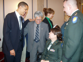 Senators Daniel Akaka and Barack Obama (D-IL) greet Army Major Tammy Duckworth before the March 17, 2005 Veterans’ Affairs Hearing, "Back from the Battlefield."